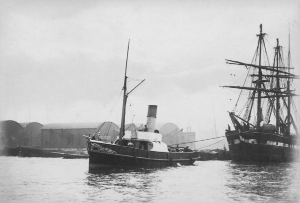 Reproduction ID: H1808 Maker: Thacker Date: 1884-85 Thacker Collection